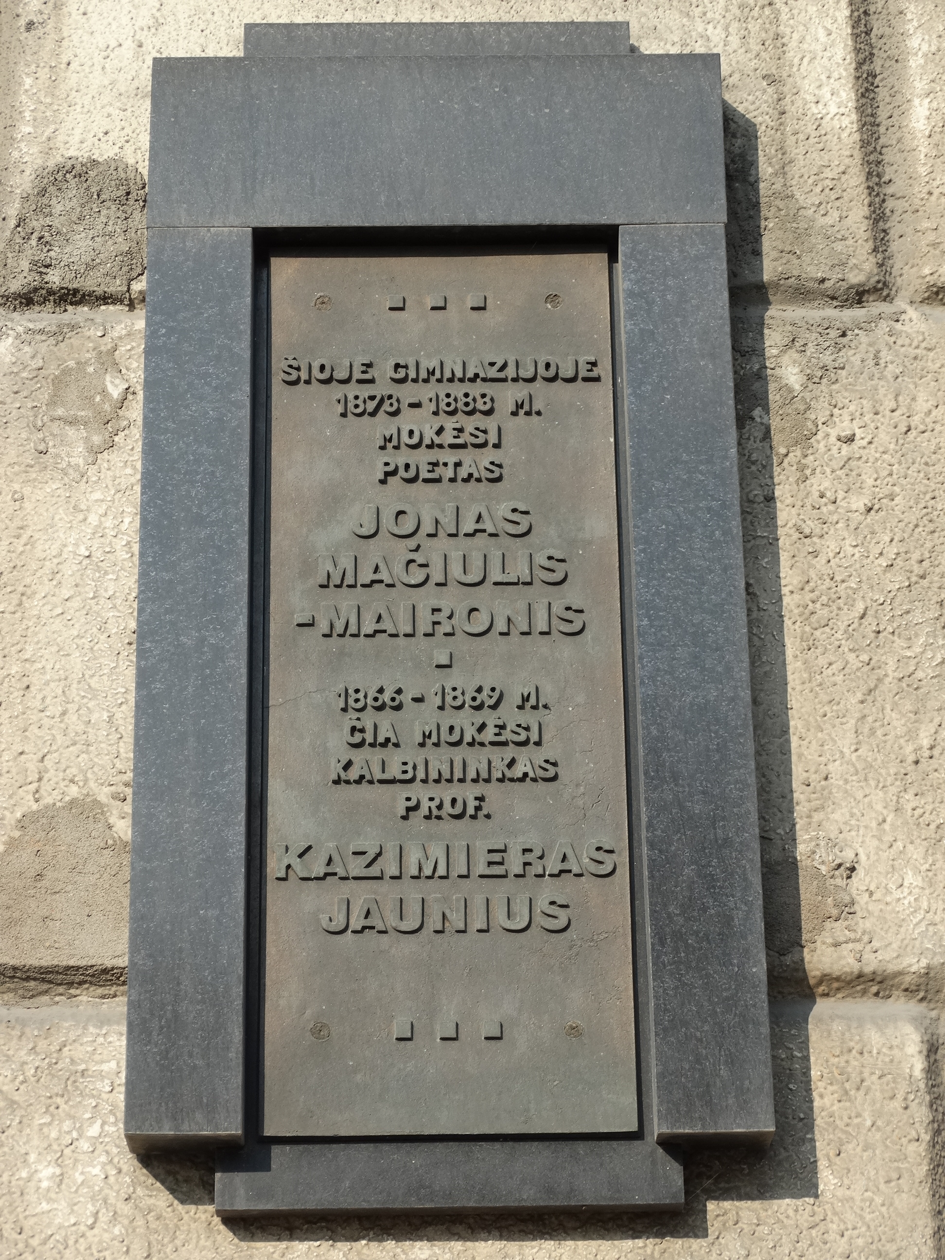 Commemorative plaque to Maironis, Kazimieras Jaunius, Kaunas, Lithuania